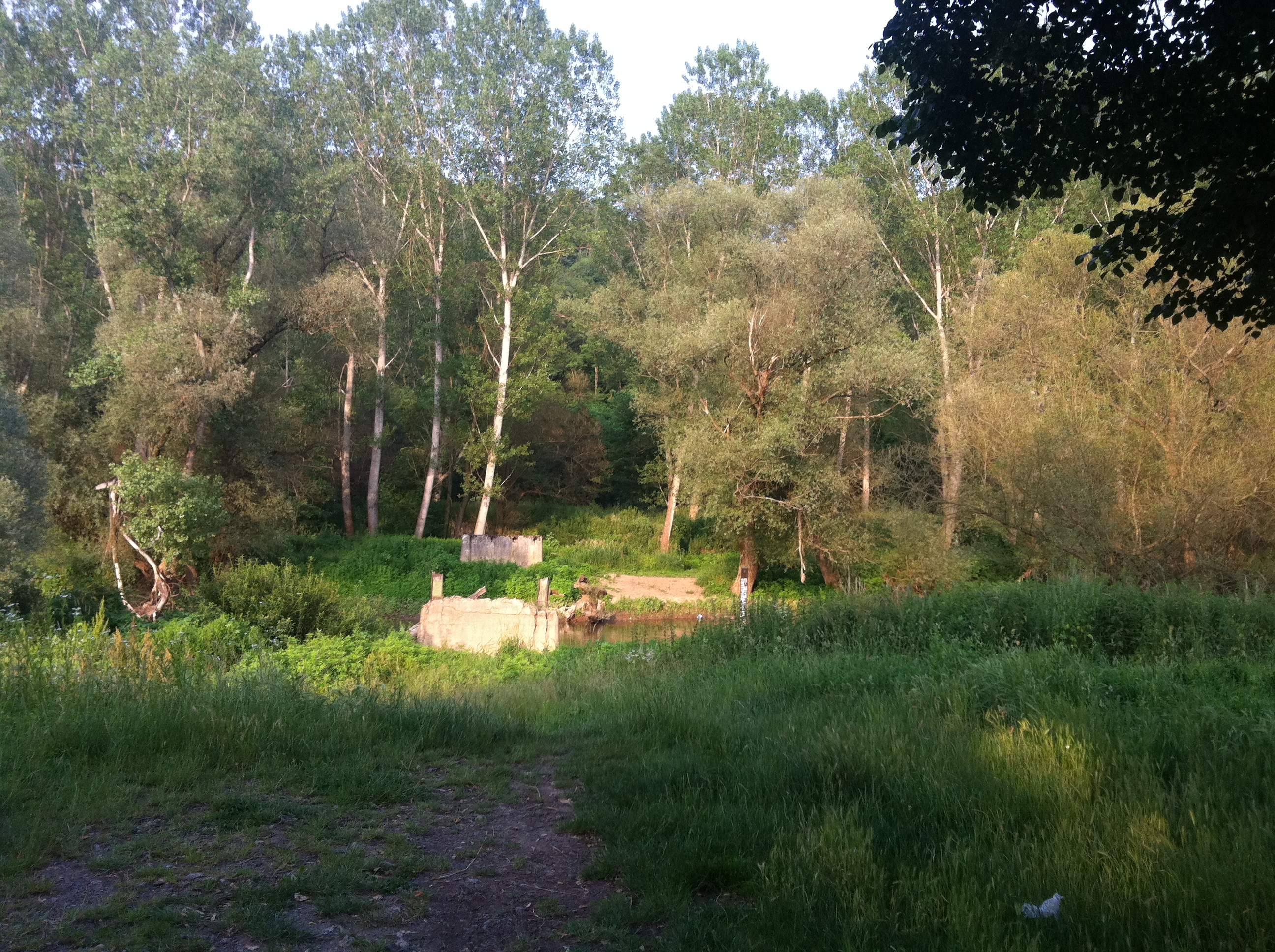 Rárósmúlyad (Hungarian) or Muľa (Slovak), Slovakia. Remnants of the bridge over the Ipoly.